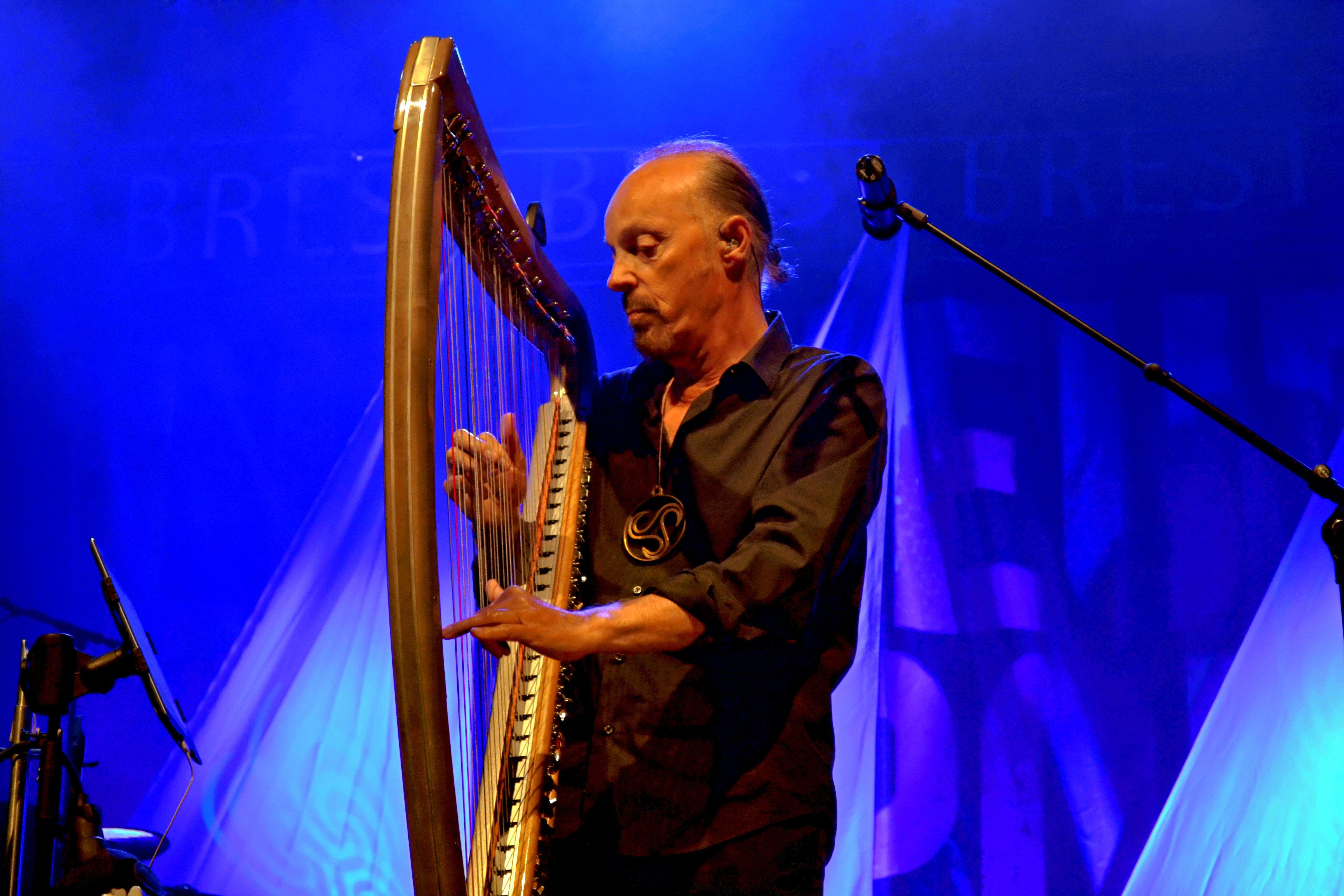 Alan Stivell in concert during the 'Thursdays of the Port festival in Brest, Finistere, Brittany on August 15th 2013.